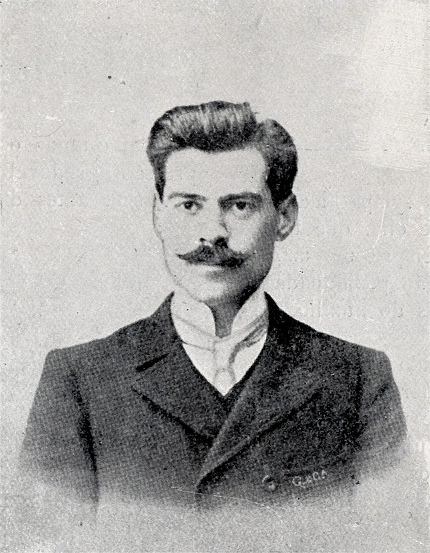 Teixeira de Pascoaes, in a photograph published in 1911